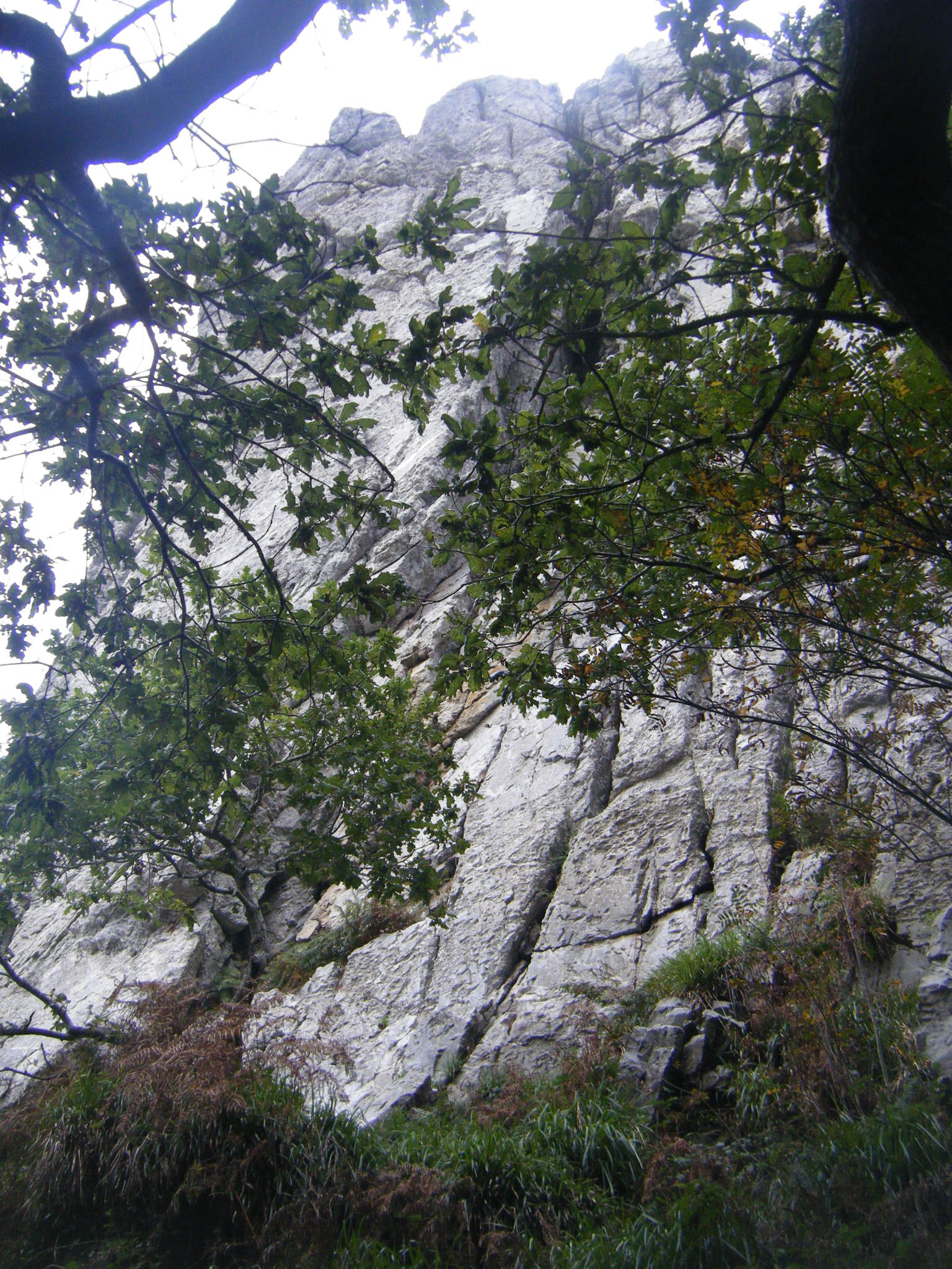 Roch Koad Pehen, Plougastell